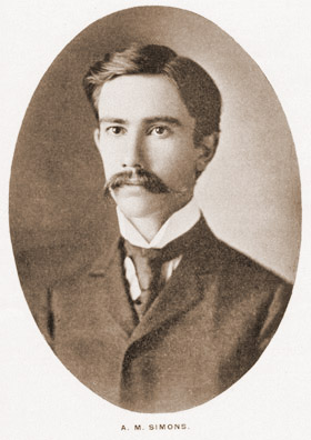 Algie M. Simons, American socialist newspaper and magazine editor Photo from The Comrade magazine, New York, 1902 Published in USA prior to 1923, public domain Minor digital editing by Tim Davenport, no copyright claimed